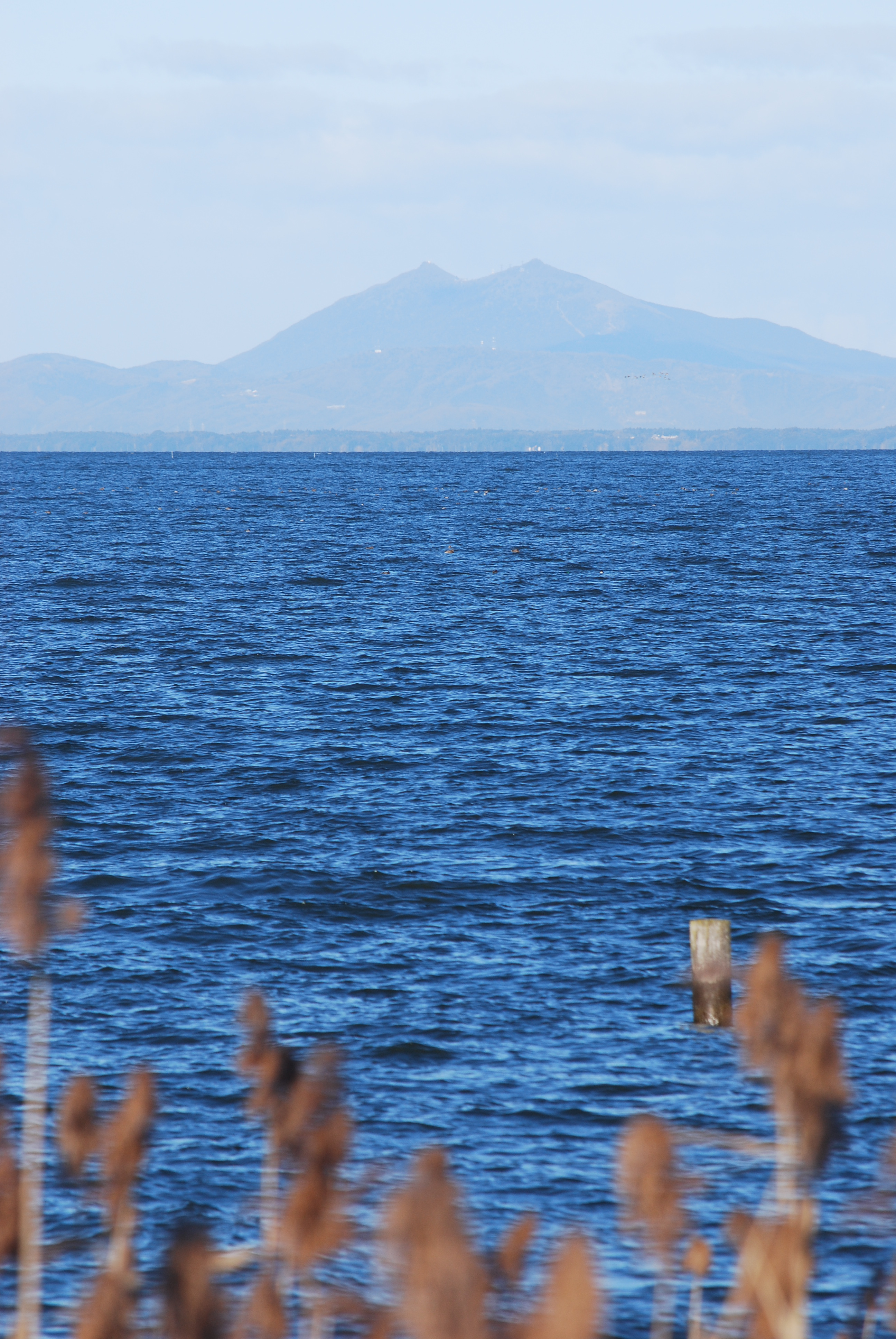 Lake Kasumigaura and Mt.Tsukuba,Inashiki-city,Japan